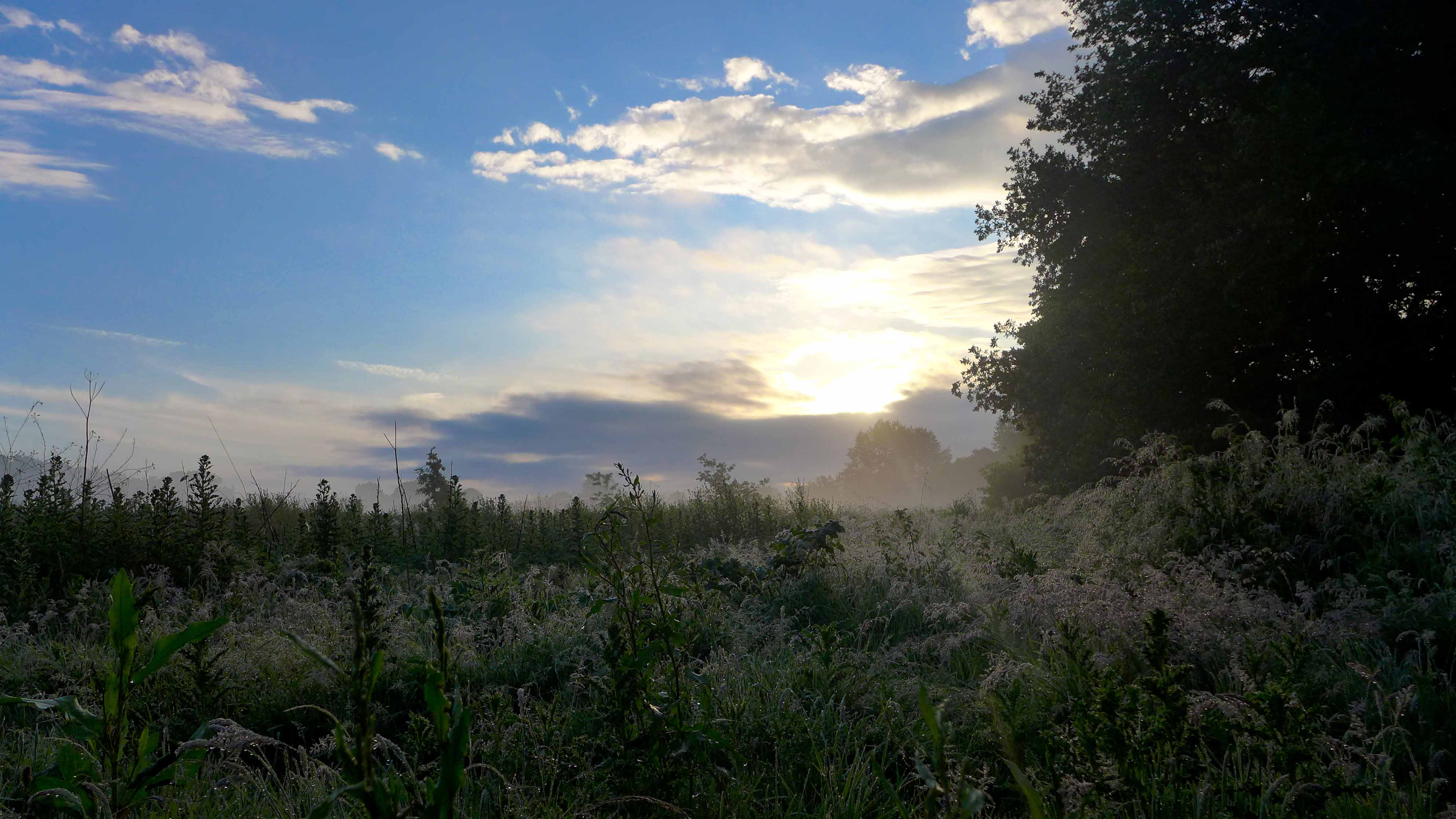 Meadowland in Sanatorium Park Cardiff. To the South of the park, near the middle of the 2 main green spaces/fields where the footpaths meet/cross. Sunrise, June 2020.